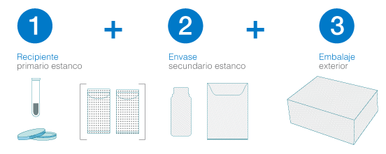 Triple packaging system for sending infectious samples